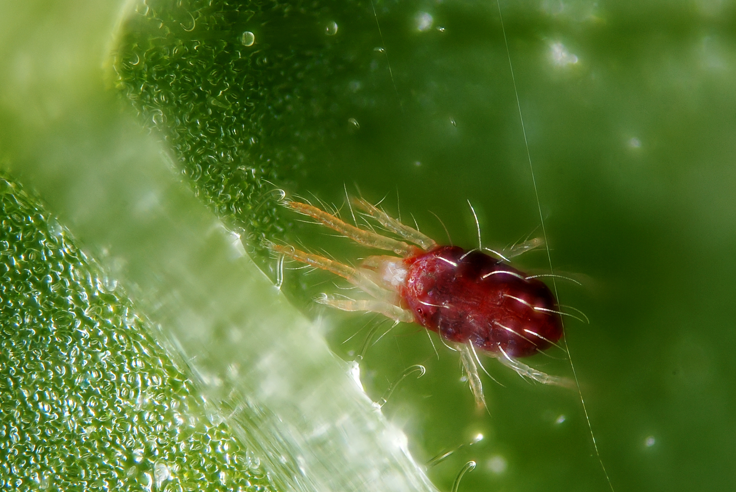 Female of the red form of the spider mite Tetranychus urticae. Scale : mite body length ~0.5 mm Technical settings : - focus stack of 15 images - microscope objective (Nikon achromatic 10x 160/0.25) on bellow (70 mm extension)